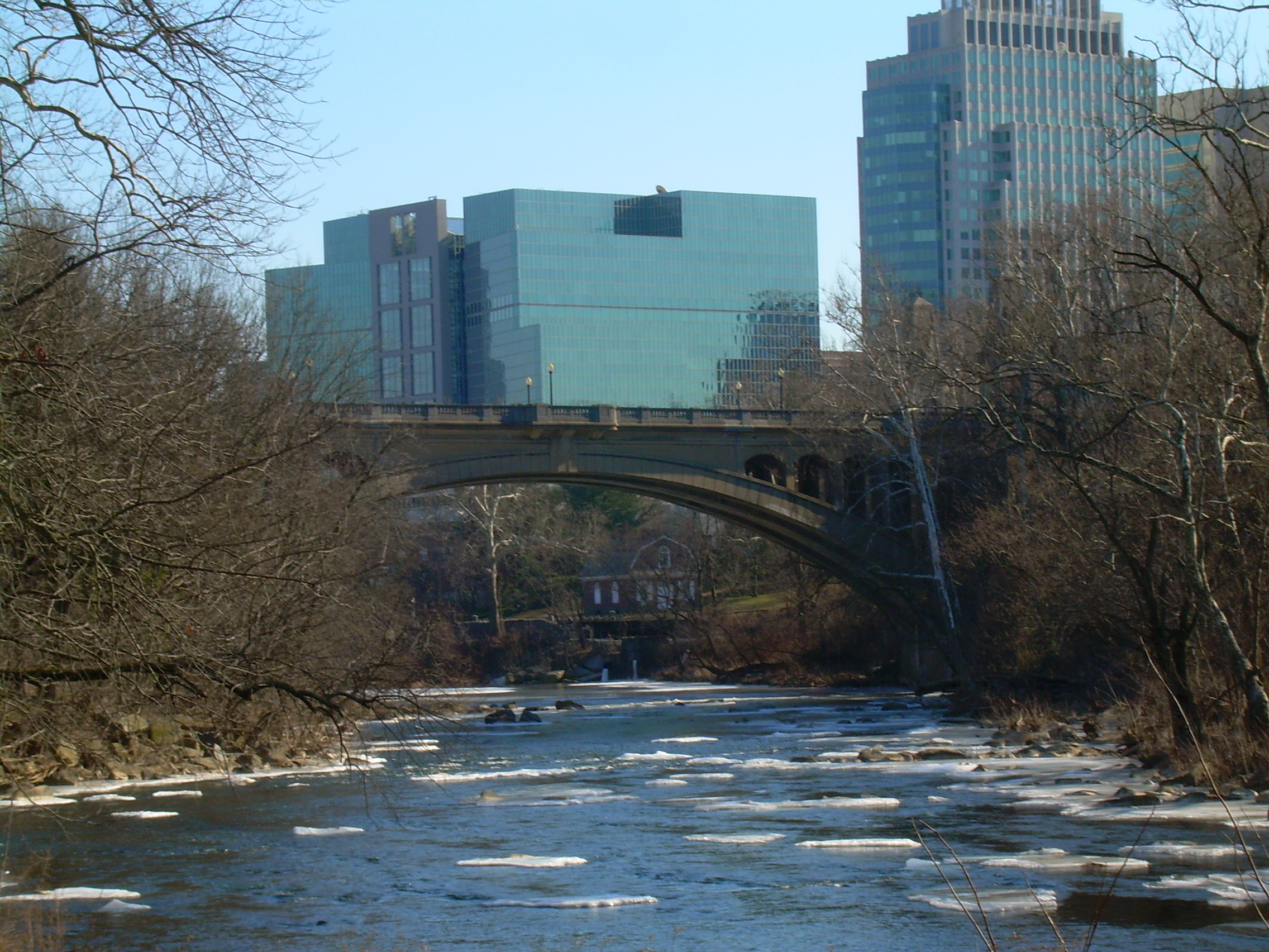 Looking south underneath the Baynard Boulevard bridge over the icy Brandywine Creek in Wilmington, Delaware. The Old Presbyterian Church can be seen beneath the bridge.